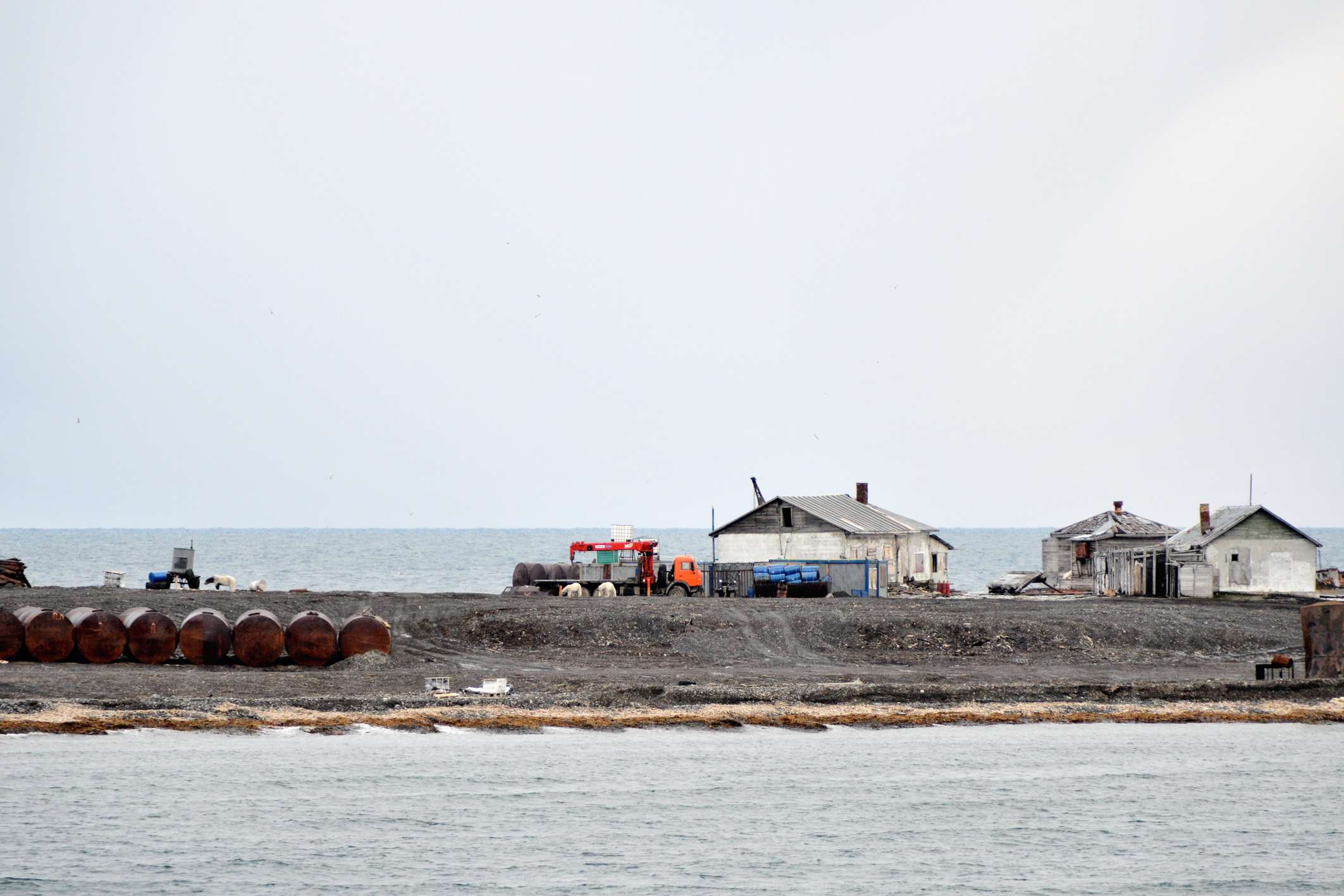 Cape Zhelaniya (Northernmost cape of Northern Island of Nowaya Semlya Archipelago, Russia; 76°57’N, 68°35’E)